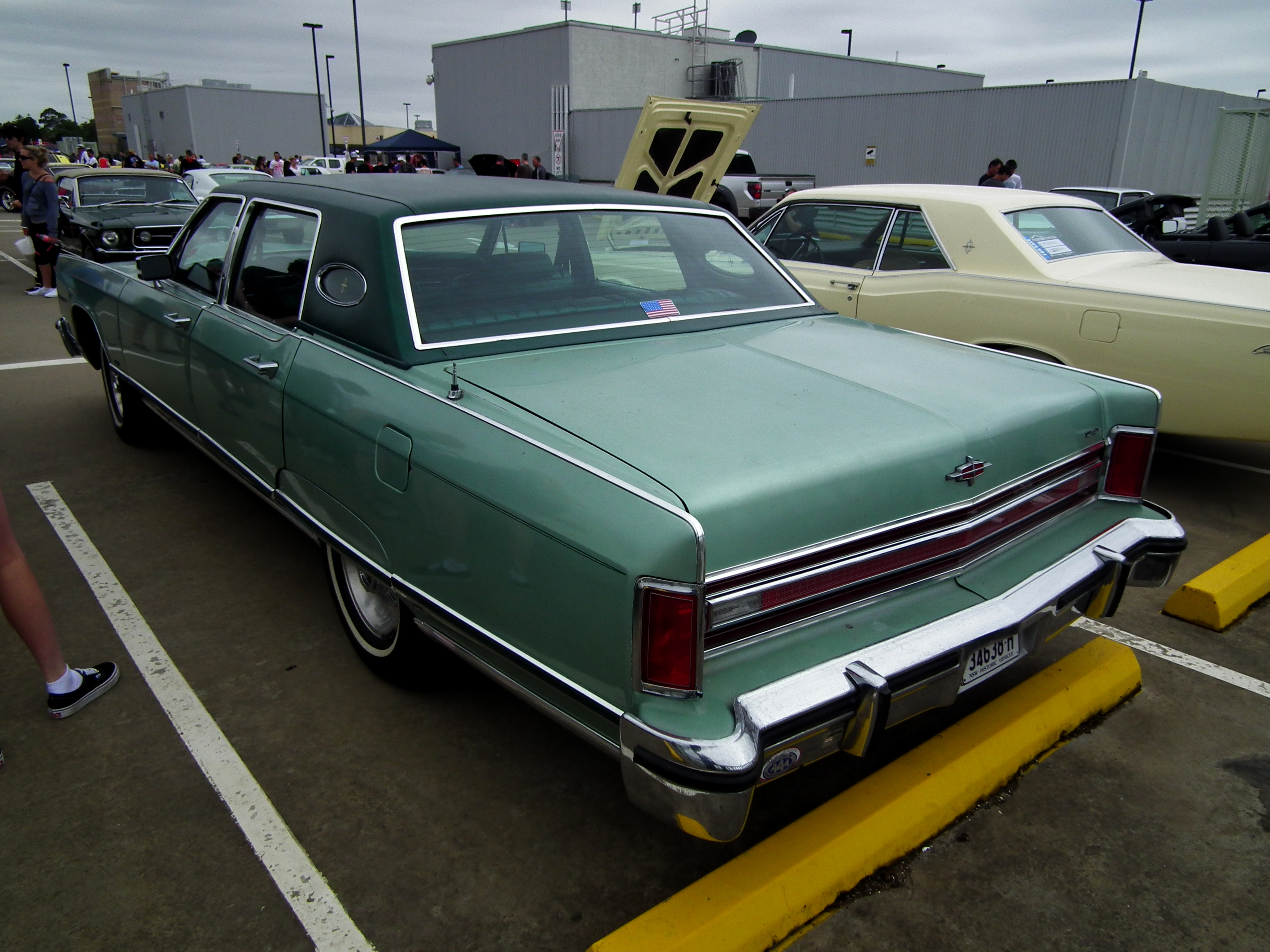 1977 Lincoln Continental Town Car sedan. Taken at the 2013 New South Wales All American Day, held at Castle Towers Shopping Centre, Castle Hill, Sydney.